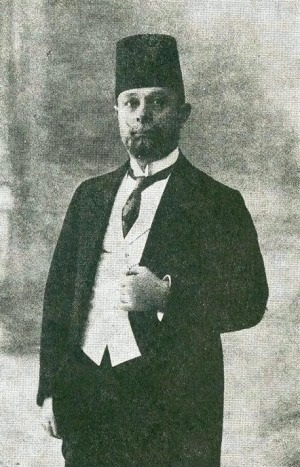 Transjordan prime minister Rashid Tali’a, circa 1921